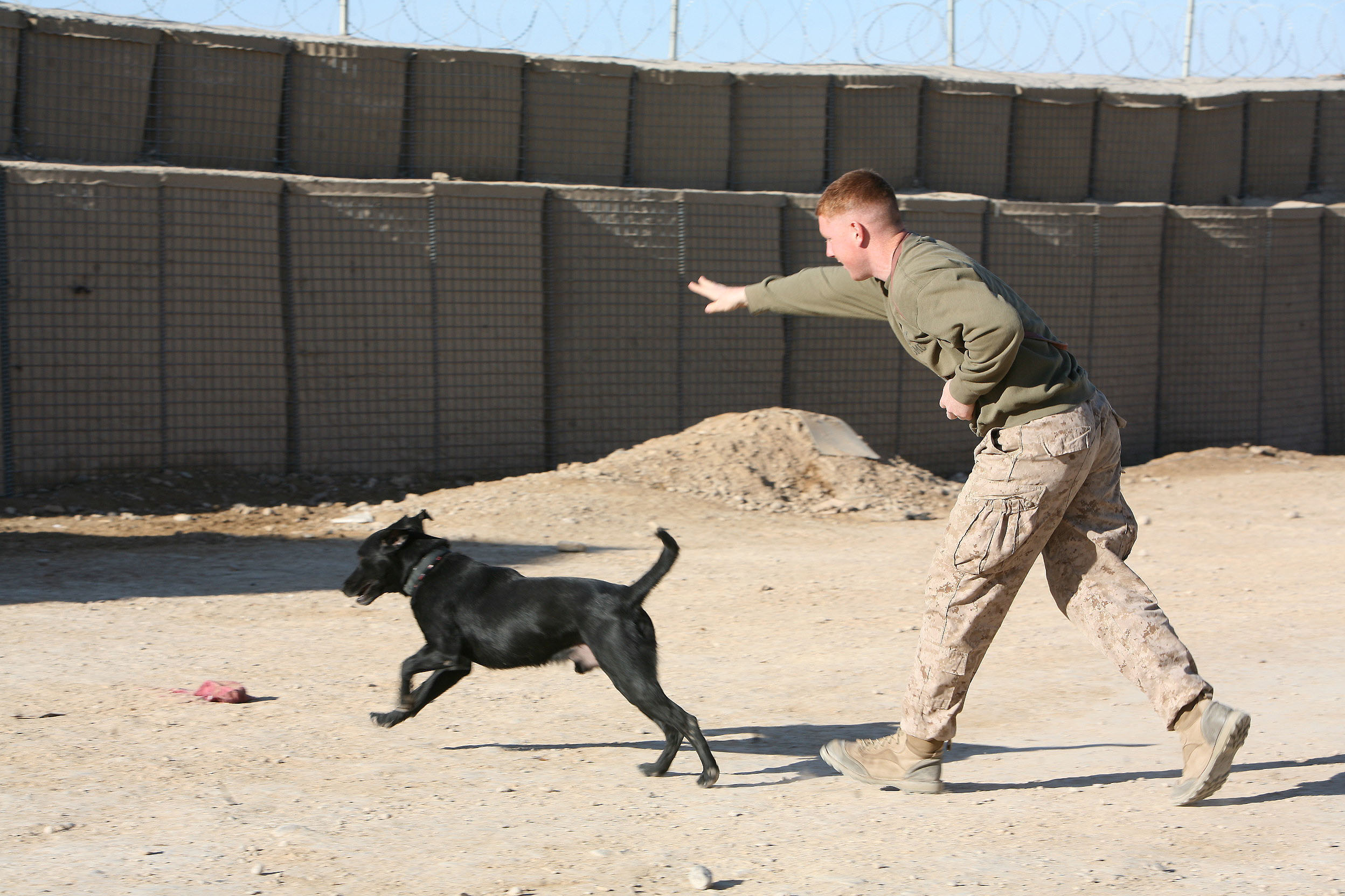 Cpl. Daniel Hayden, a dog handler with Kilo Company, 3rd Battalion, 4th Marine Regiment, Marine Expeditionary Brigade-Afghanistan, puts his improvised explosive device detection dog, Boogy, through training here Jan. 15. Hayden is a 23-year-old from Manchester, N.H. (Official Marine Corps Photo by Cpl. Zachary J. Nola)